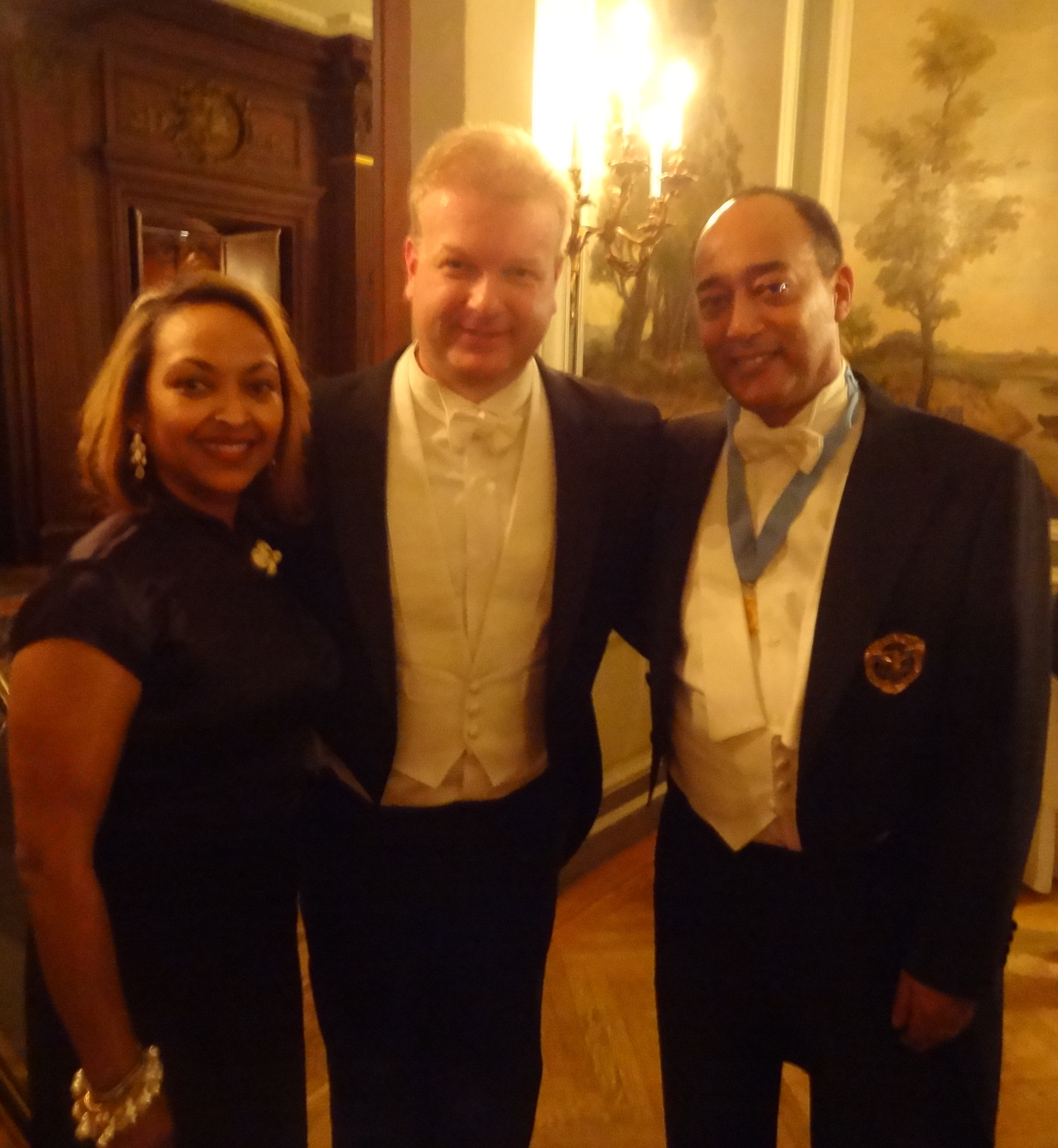 Photo taken of subject at ball